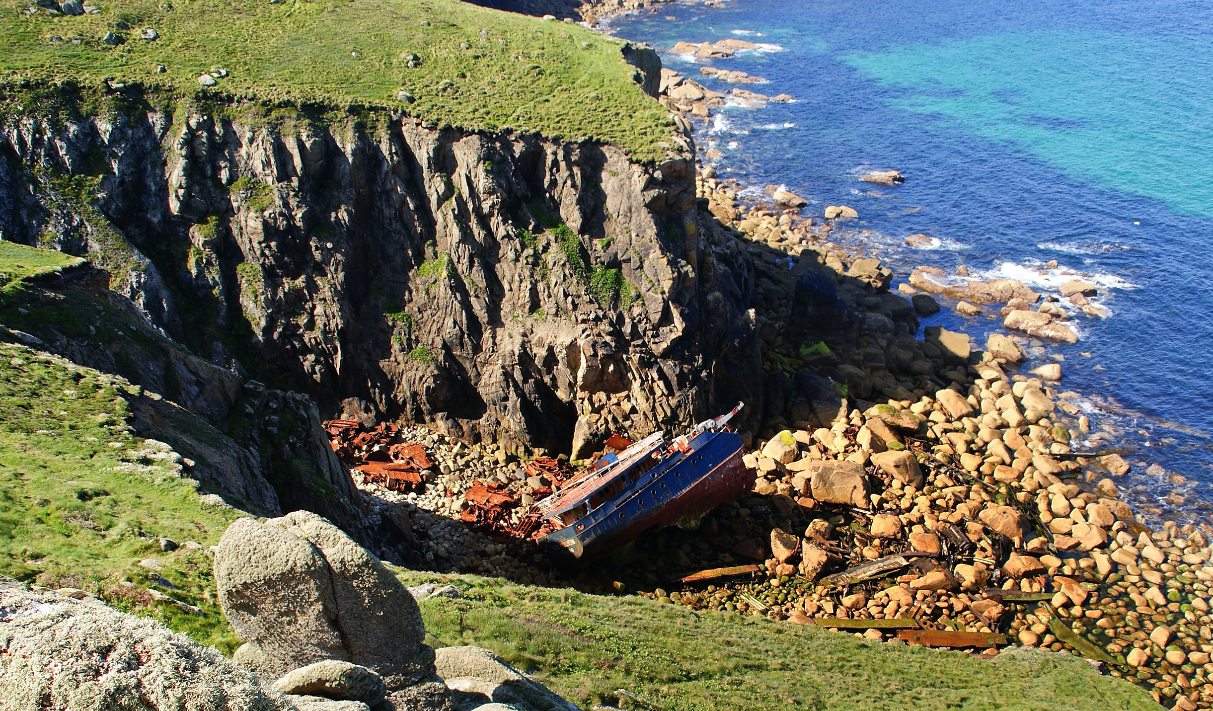 Remains of the R M S Mulheim near Lands End in Cornwall, UK. It went aground in March 2003.